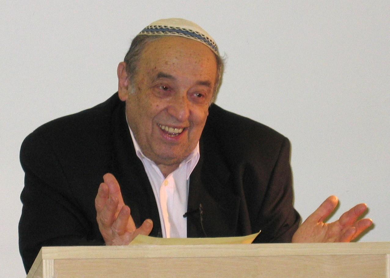 linguist Joshua Fishman at a lecture about the Gaelic language at the University of Aberdeen, Scotland